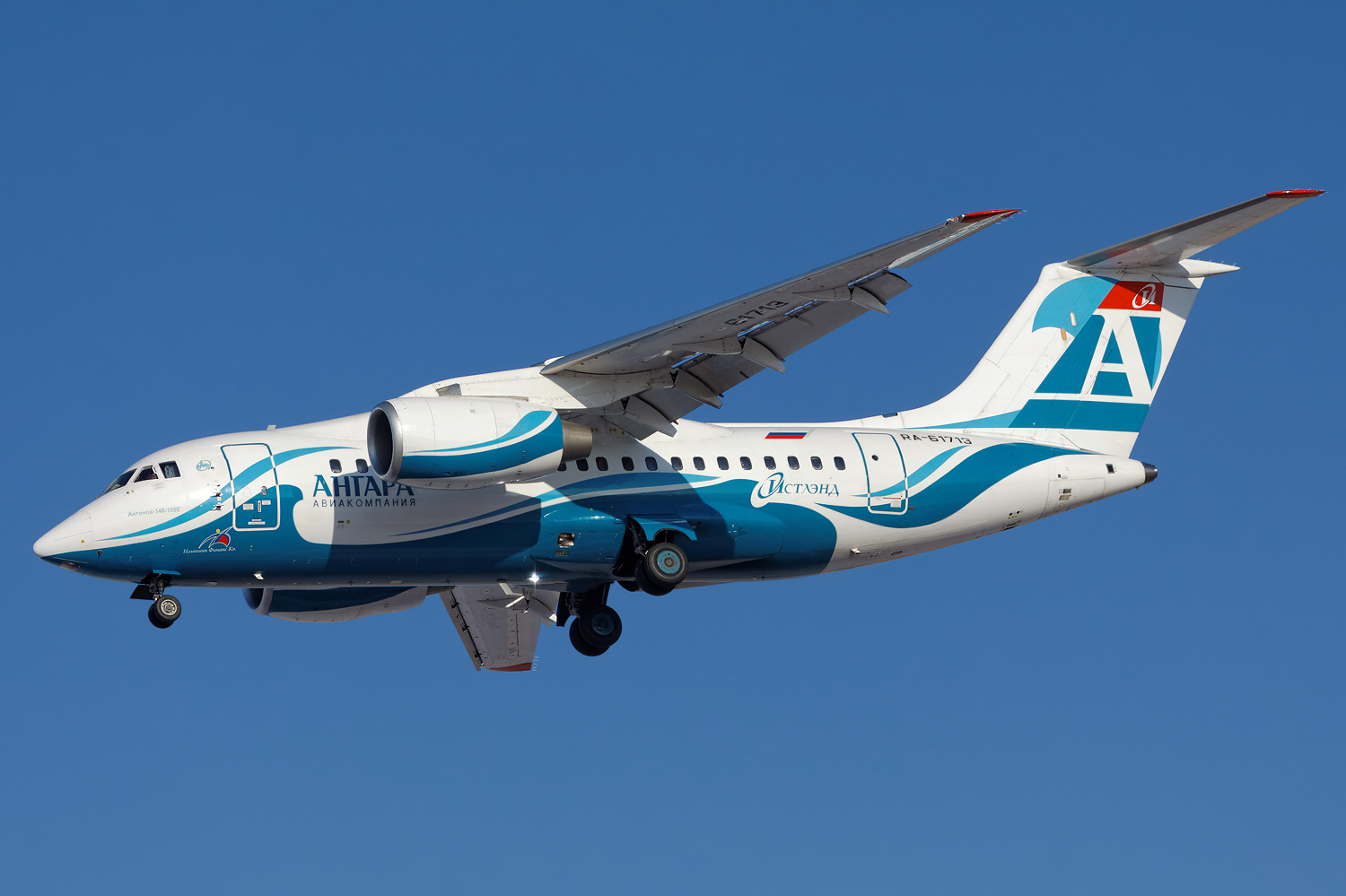 Angara Airlines Antonov An-148-100E on finals at Irkutsk Airport